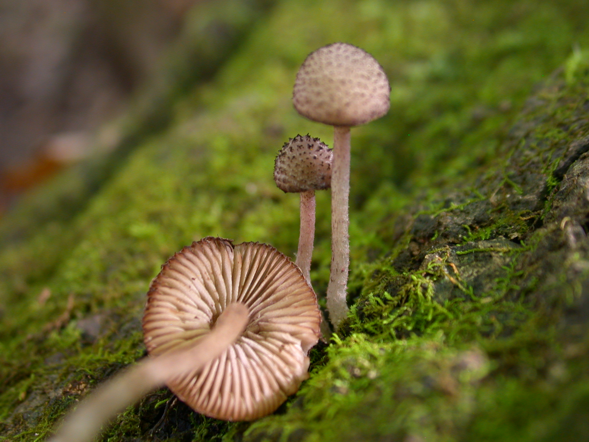 Cystoagaricus hirtosquamulosus (Peck) Örstadius & E. Larss. Image location: Jasper Co., Missouri, USA Growing on the bark of a dead Sycamore or some kind of large creek bottom species. Recognized by sight For more information about this, see the observation page at Mushroom Observer.